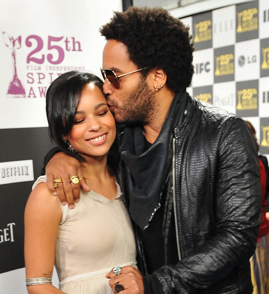 Actress Zoe Kravitz (L) and musician Lenny Kravitz with the LG Electronics Kompressor Vacuum on The 25th Spirit Awards Blue Carpet held at Nokia Theatre L.A. Live on March 5, 2010 in Los Angeles, California. Stars Take on Charitable Chore with LG Electronics Kompressor Vacuum on The 25th Spirit Awards Blue Carpet Nokia Theatre L.A. Live Los Angeles, CA United States March 5, 2010 Photo by George Pimentel/WireImage.com